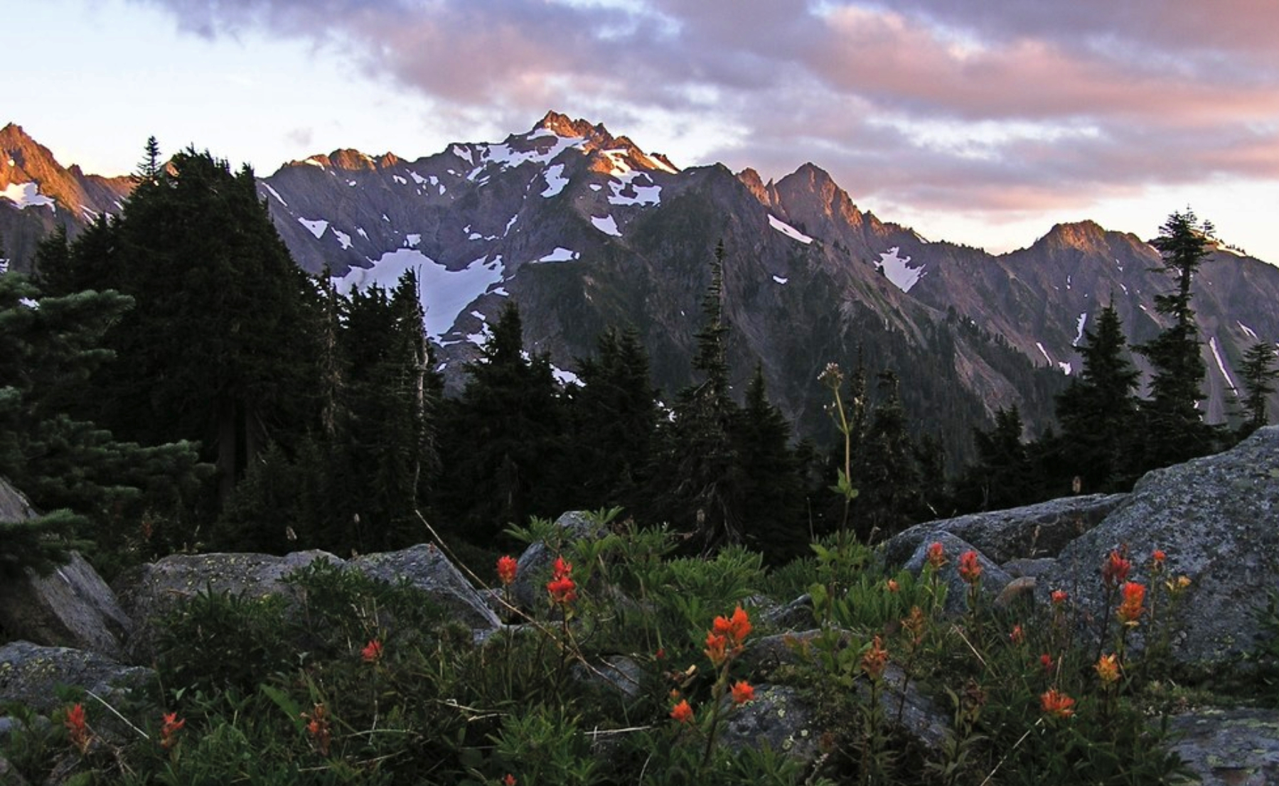 White Mountain & wildflowers